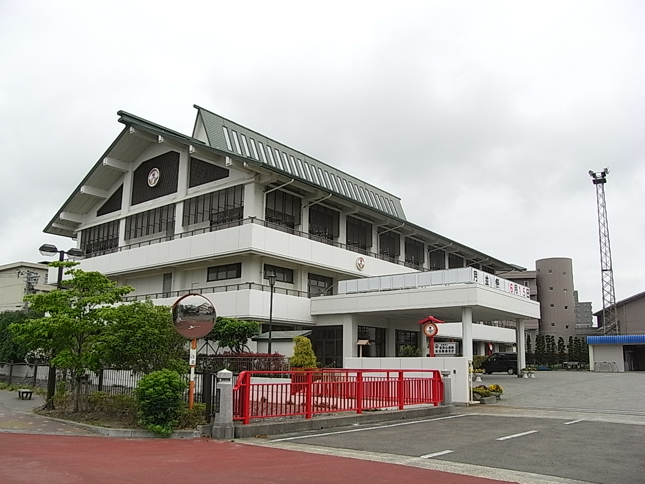 Tōhoku Religious Branch Office of the Sekai Shindō-kyō, whichs is one of new sects of Shintō. Kinoshita 3 chōme, Miyagino ward, Sendai, Miyagi prefecture, Japan.